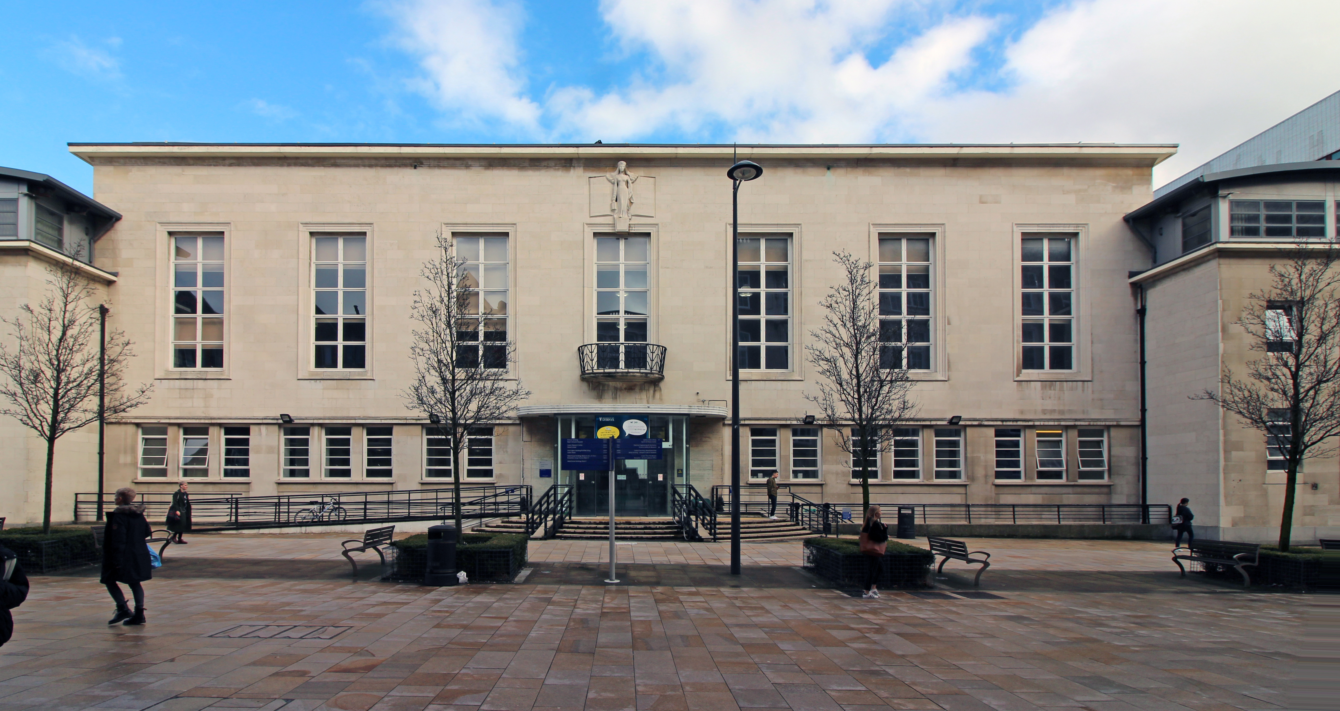 Frontage on Ashton Street. Opened 1938 and is the main science and medicine library on the Northern Campus of the University of Liverpool.